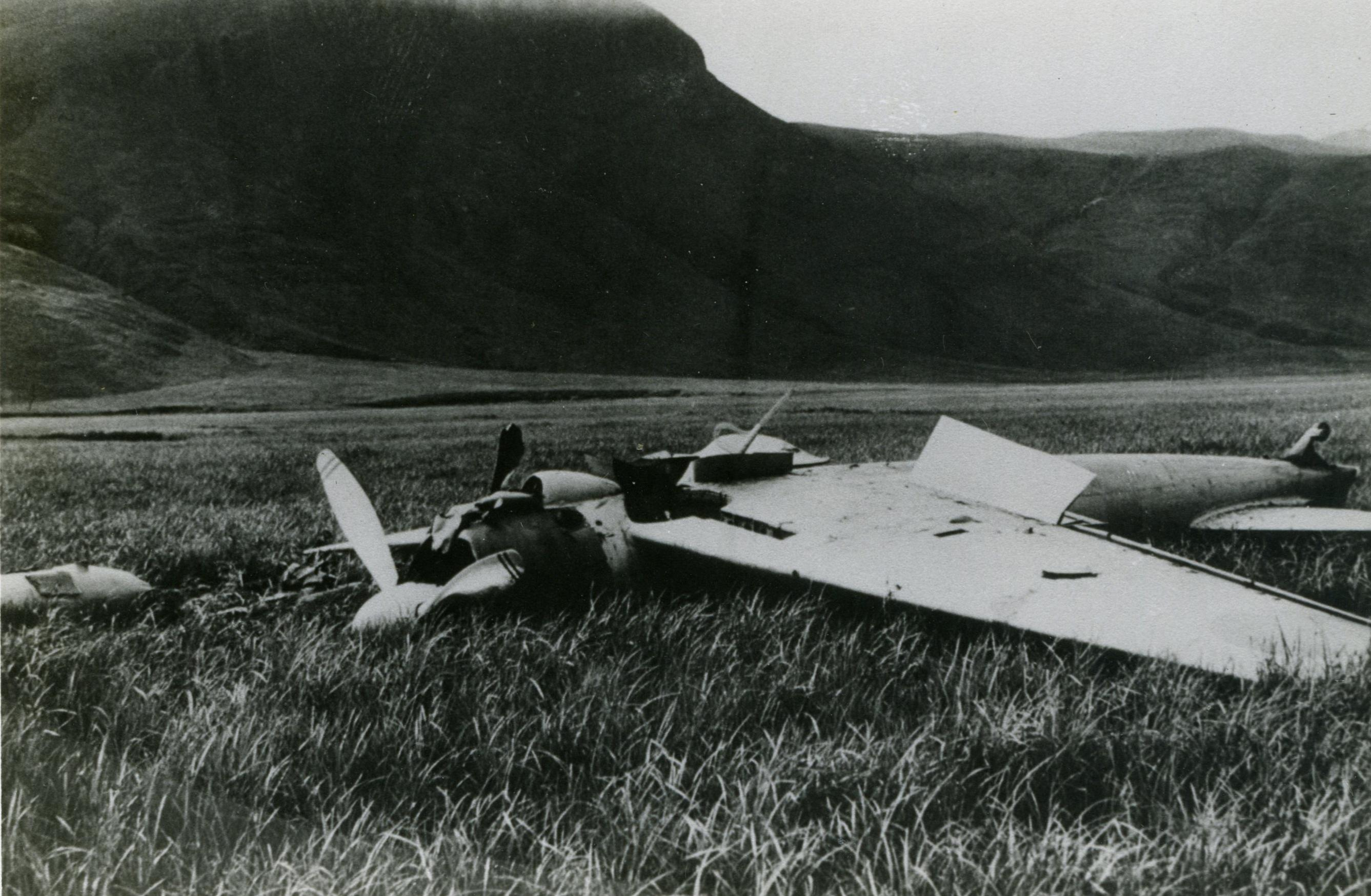 A crashed Zero.